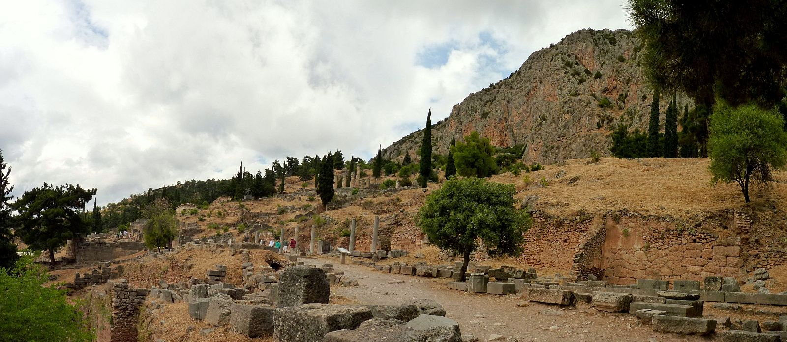 Delphi (Greek: Δελφοί, [ðelˈfi]) is both an archaeological site and a modern town in Greece on the south-western spur of Mount Parnassus in the valley of Phocis. You can use the images for free. But a link to - I would be happy :)